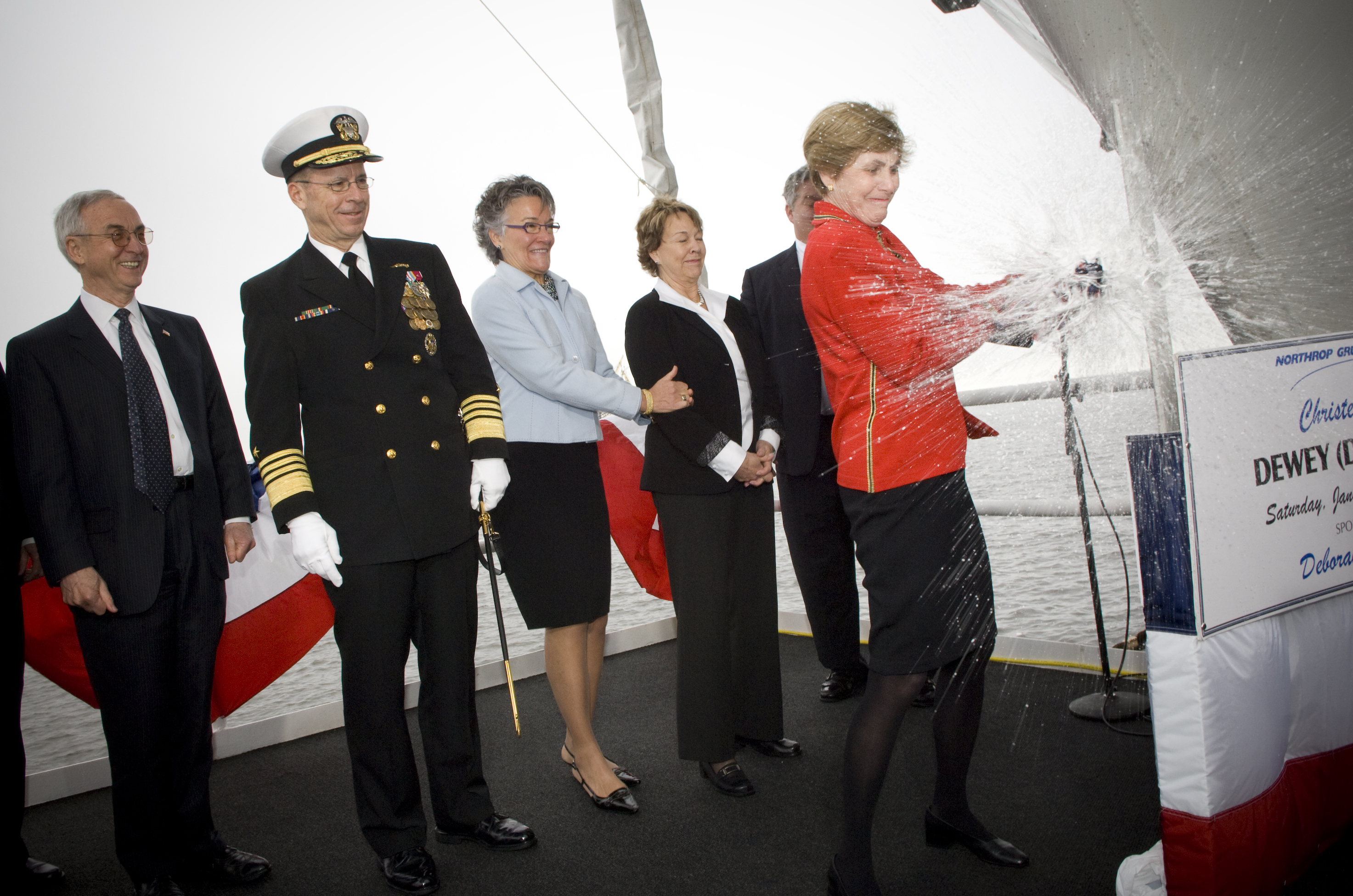 Mrs. Deborah Mullen, ships sponsor for the precommissioning unit Dewey (DDG 105) christens the newest Aegis-class destroyer, striking the traditional champagne bottle across the ship's bow at Northrop Grumman Systems Shipyard, Pascagoula, Miss., Jan. 26, 2008.